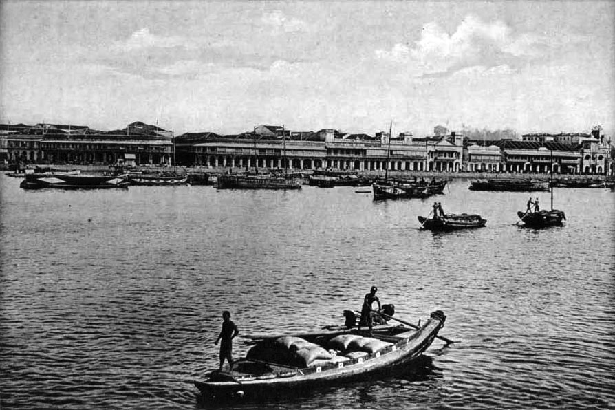 View of Collyer Quay from the sea before 1900.